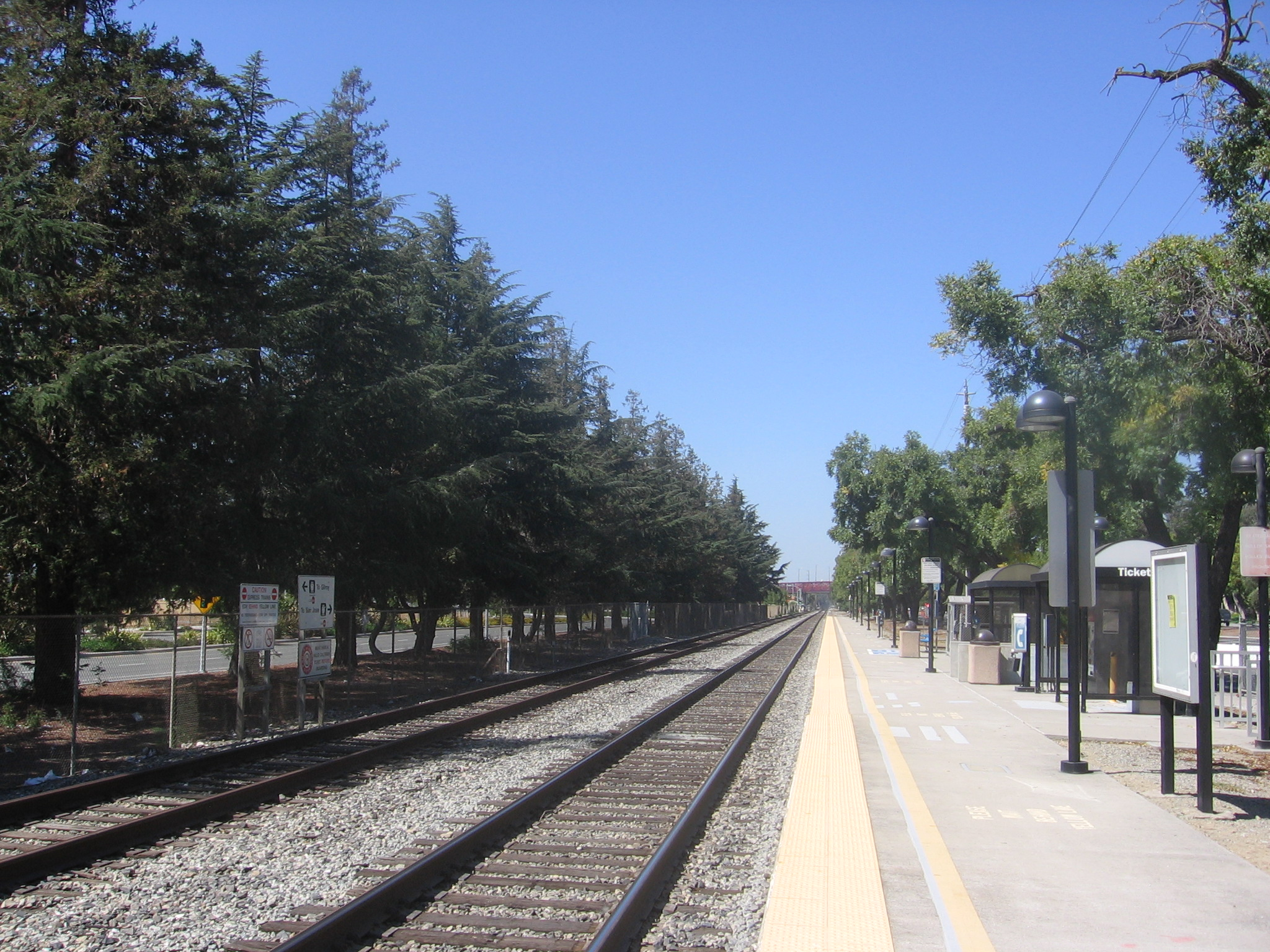 The Blossom Hill (Caltrain station) in southern San José, California, USA.